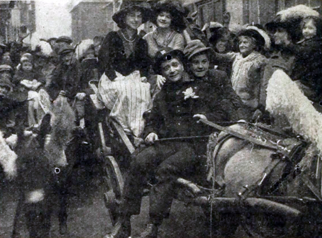 Illustration of a review in The Moving Picture World